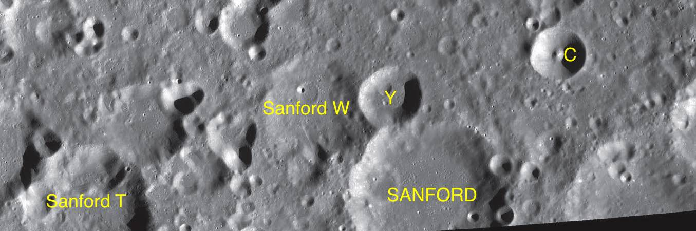 Part of the chart LAC-34 used for the presentation.